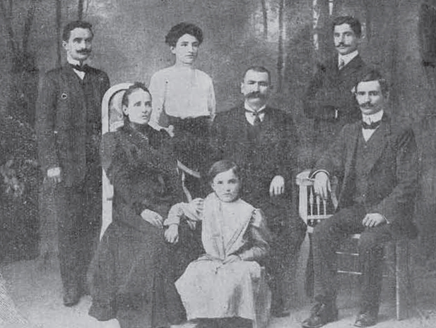 Vasil monchev with his family